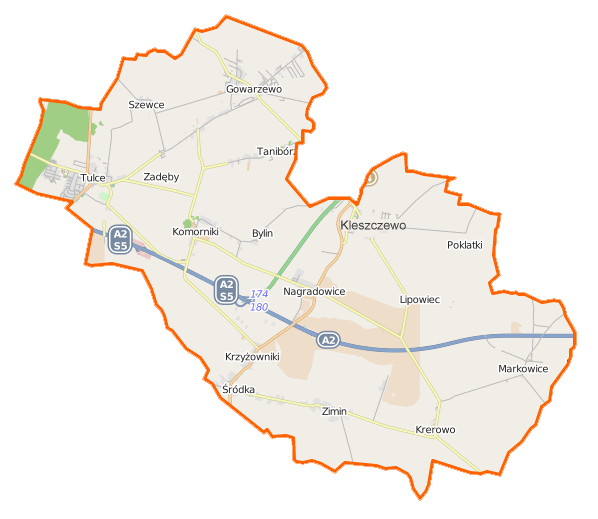 Map of Gmina Kleszczewo, Poland This map of Kleszczewo (gmina) was created from OpenStreetMap project data, collected by the community. This map may be incomplete, and may contain errors. Don't rely solely on it for navigation. Border coordinates52.380717.0442←↕→17.249152.2715